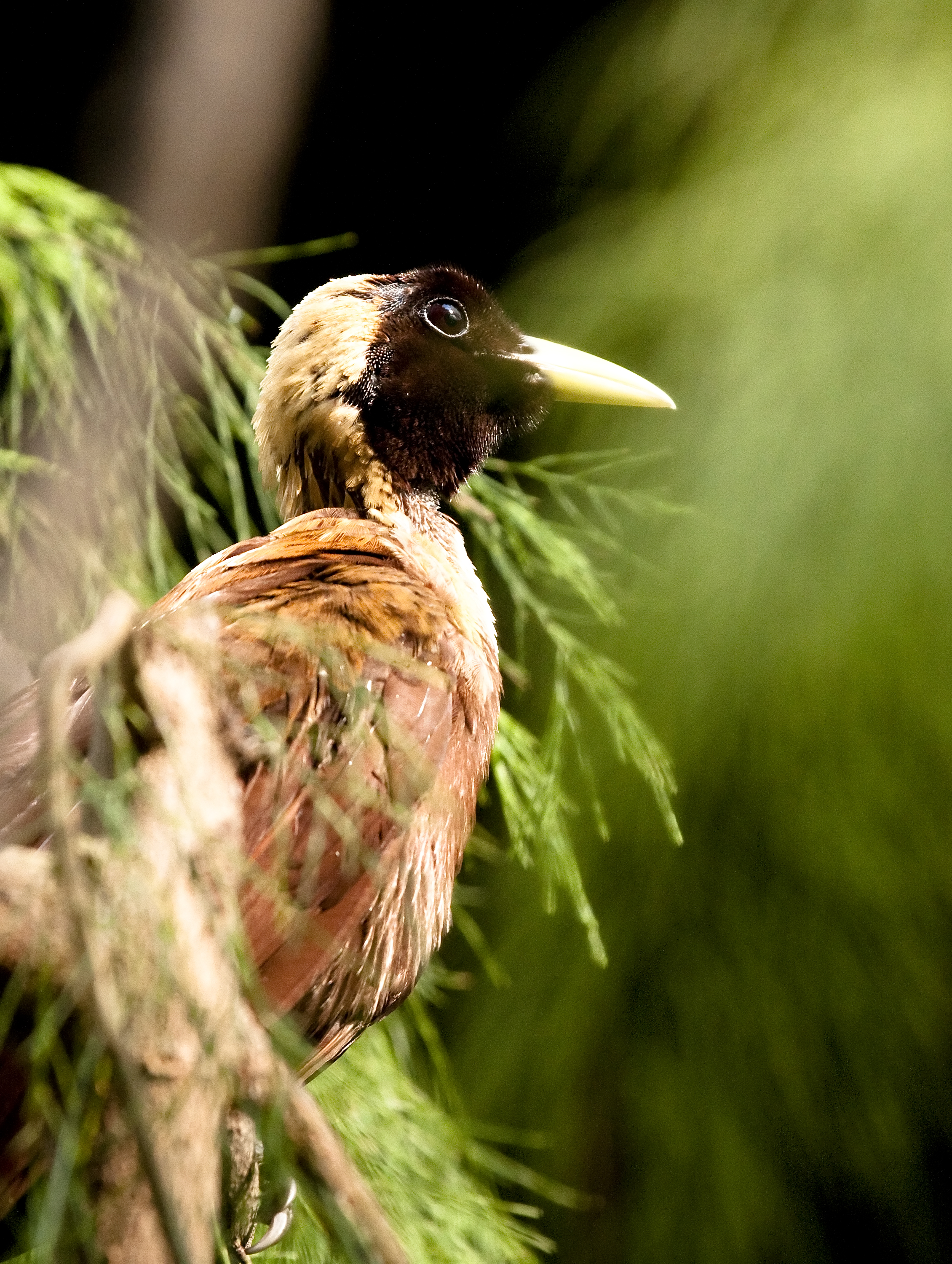 The Red Bird of Paradise, Paradisaea rubra is a large, up to 33cm long, brown and yellow bird of paradise with a dark brown iris, grey legs and yellow bill. The male has an emerald green face, a pair of elongated black corkscrew-shaped tail wires, dark green feather pompoms above each eye and a train of glossy crimson red plumes with whitish tips at either side of the breast. The male measures up to 72cm long, including the ornamental red plumes that require at least six years to fully attain. The female resembles the male but is smaller in size, with a dark brown face and has no ornamental red plumes. The diet consists mainly of fruits, berries and arthropods. An Indonesian endemic, the Red Bird of Paradise is distributed to lowland rainforests of Waigeo and Batanta islands of West Papua. This species shares its home with another bird of paradise, the Wilson's Bird of Paradise. Hybridisation between these two species are expected but not recorded yet. As with other sexually dimorphic birds of paradise, the male Red Bird of Paradise is polygamous. It also has one of the most complex courtship display of the whole family. On high intensity display, he performs butterfly dance which it spreads and vibrates his wings like a giant butterfly.